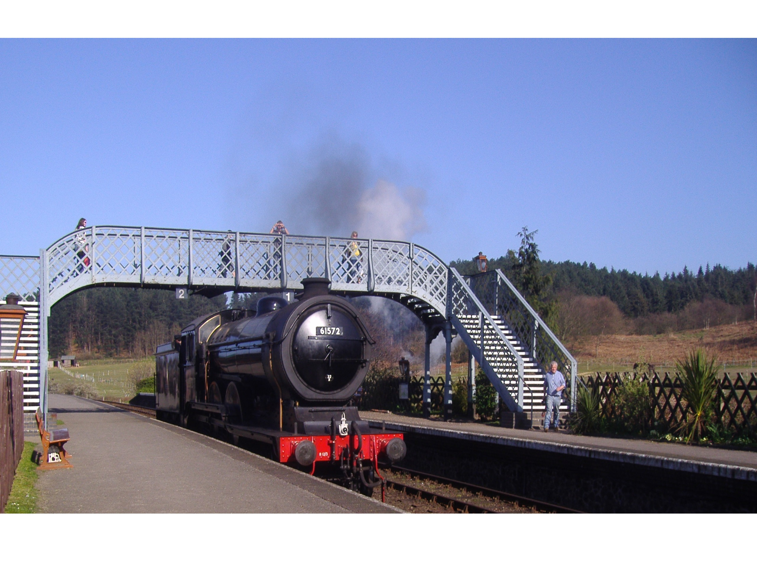 A Digital Photograph of the North Norfolk Steam Railway